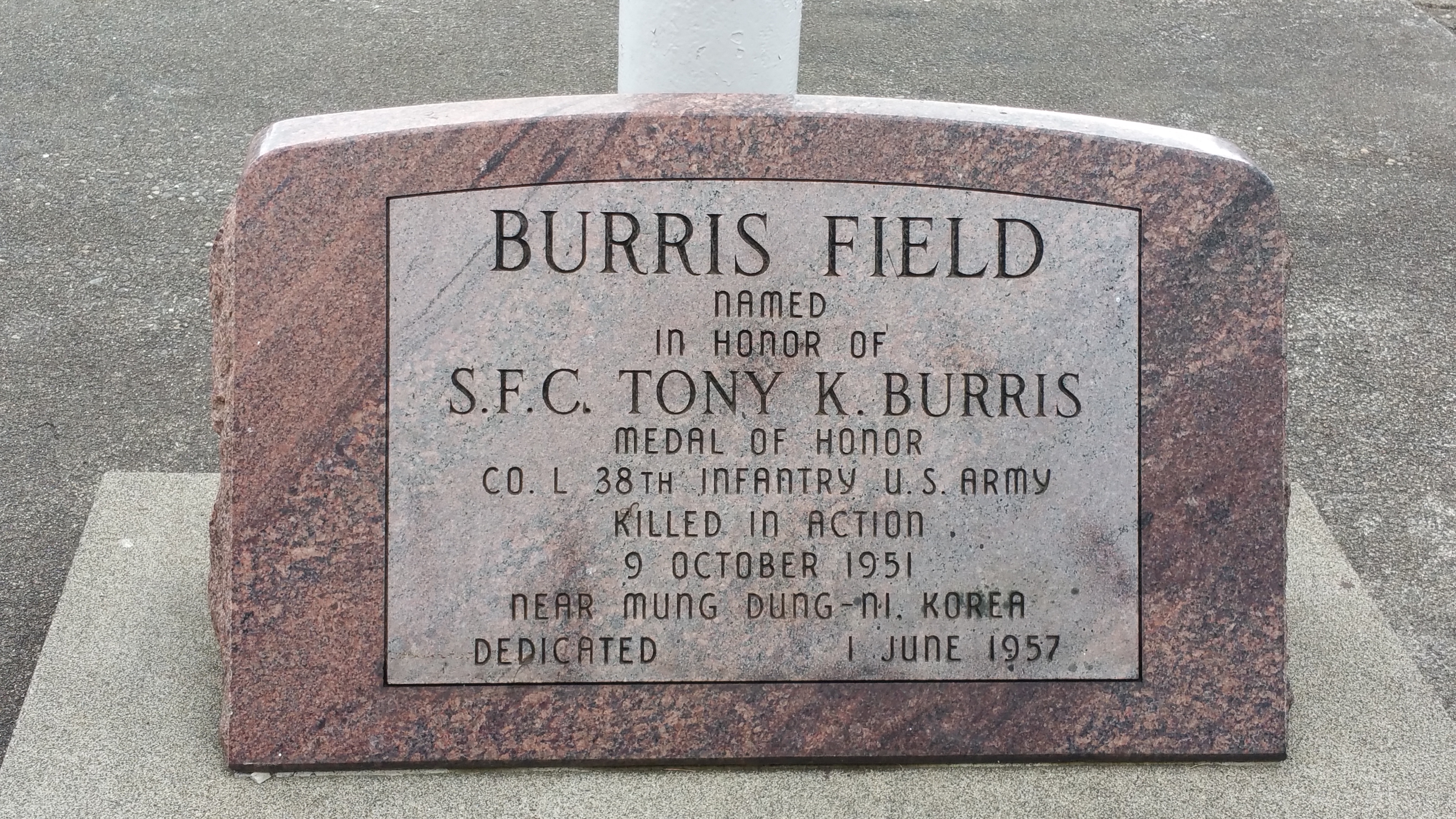 Tony K. Burris memorial JBLM